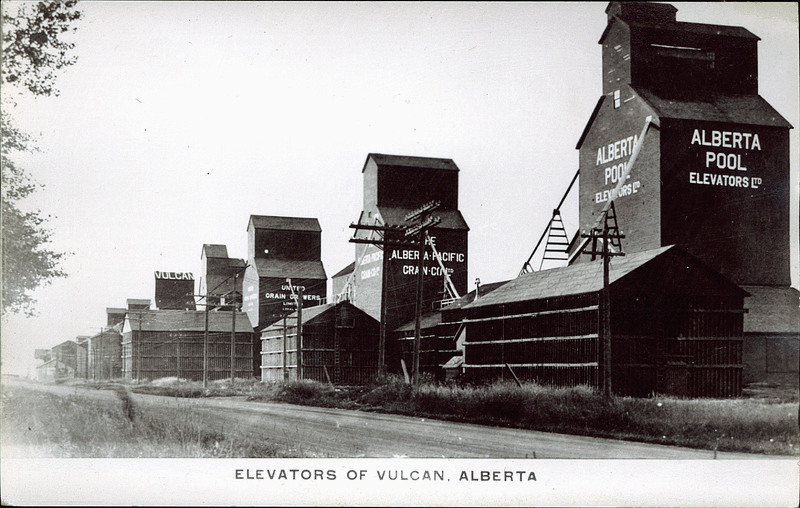 View of the row of grain elevators in Vulcan, Alberta. Physical description: 1 postcard : b&w ; 9 x 14 cm. Language: English